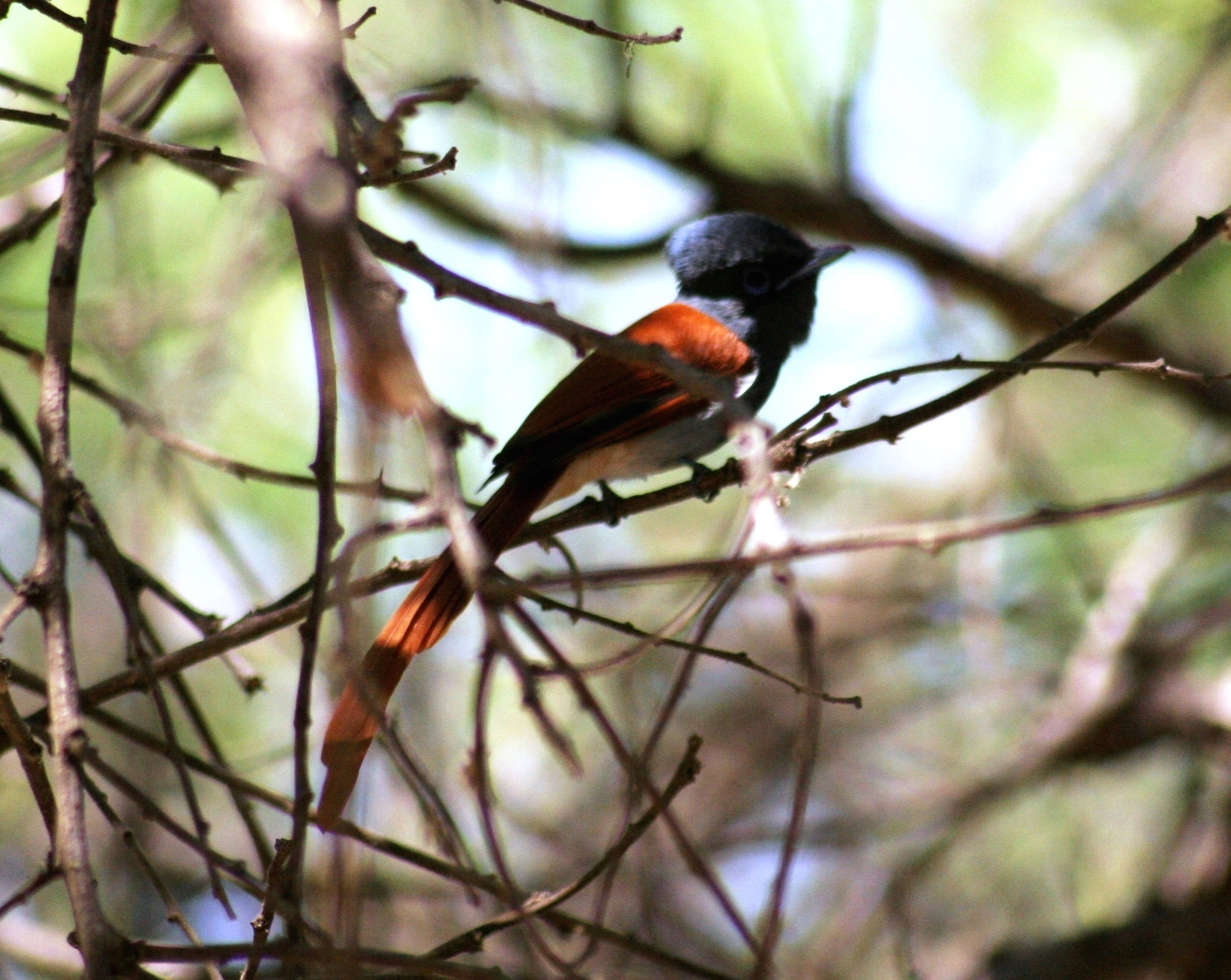 African Paradise Flycatcher (Terpsiphone viridis). This is a very pretty little bird and this picture really doesn't do it justice. I will try harder next time.